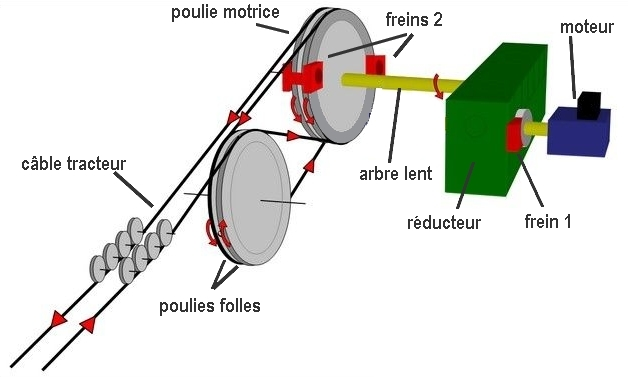 funicular